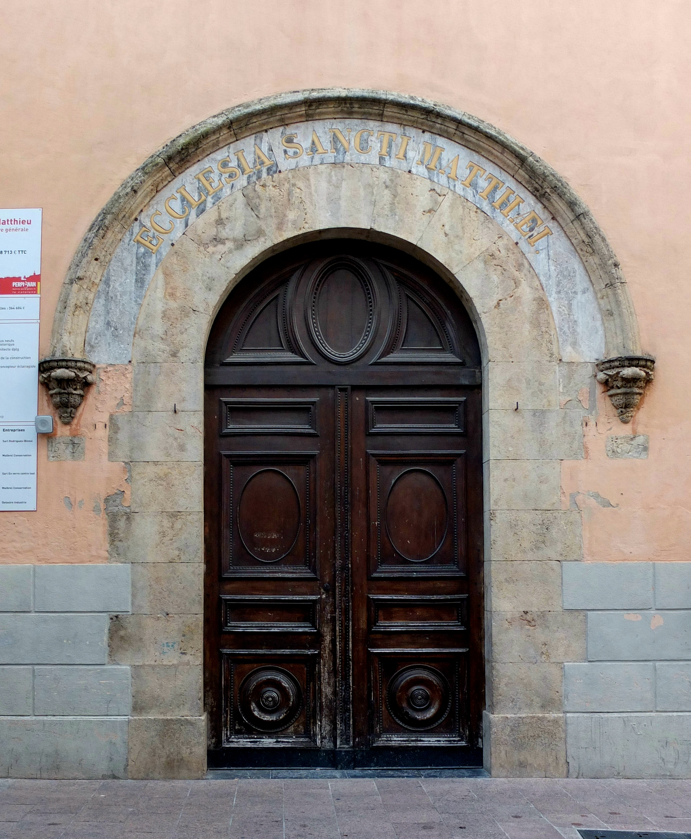 Portal of "Église Saint-Mathieu de Perpignan", France